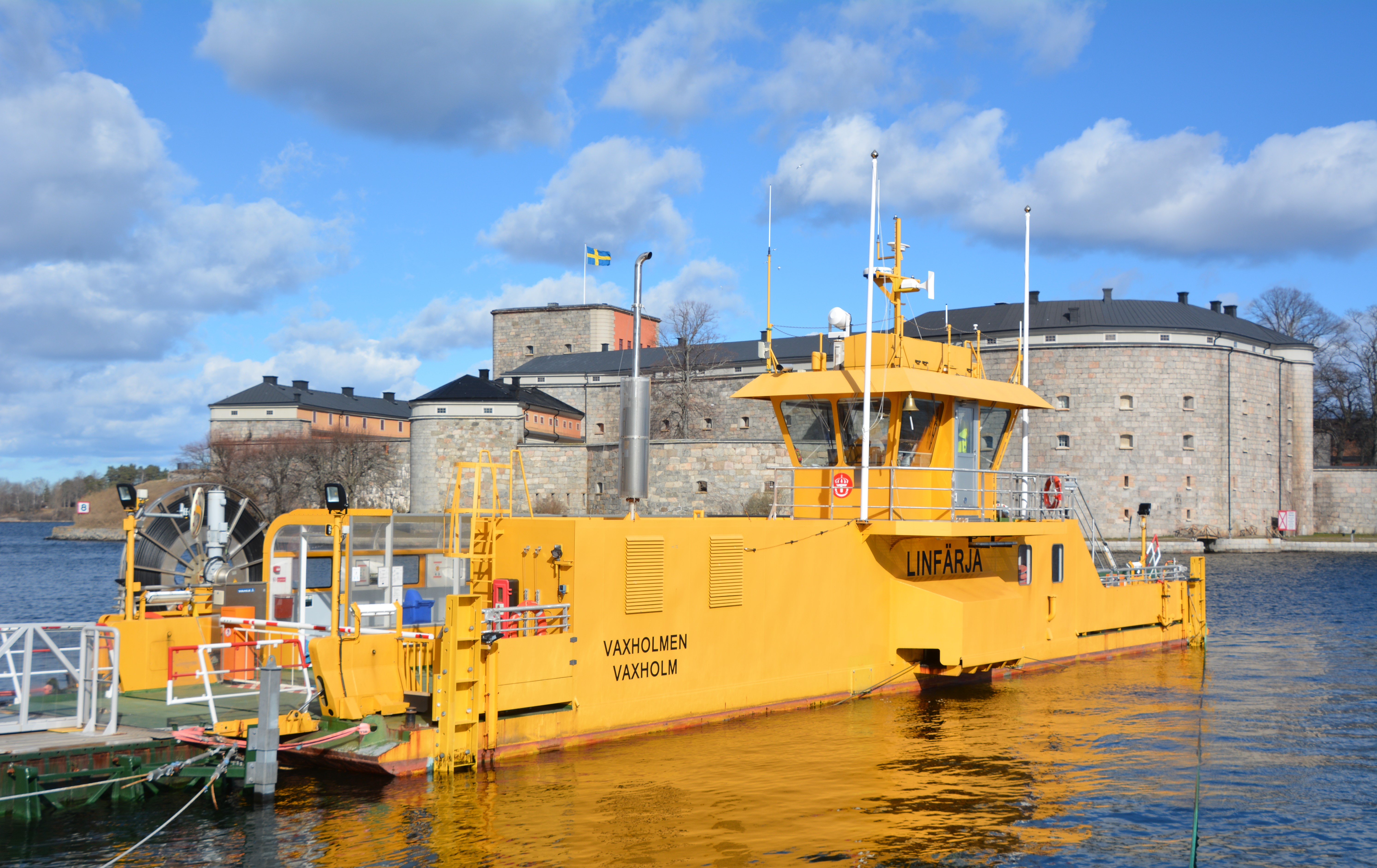 Cable ferry, Vaxholm